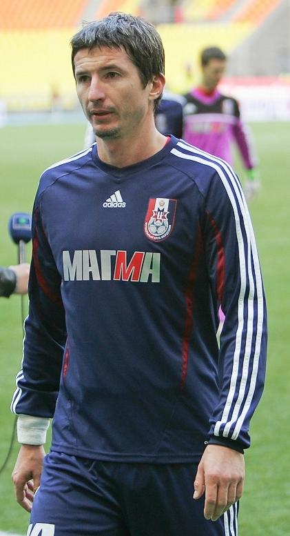 Evgeni Aldonin playing for FC Mordovia Saransk.